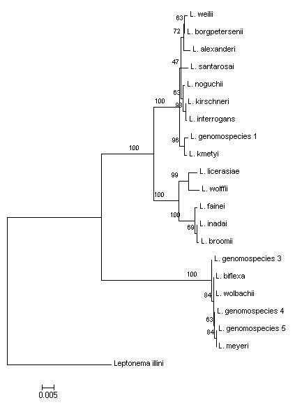 Evolutionary relationships of Leptospira and Leptonema.